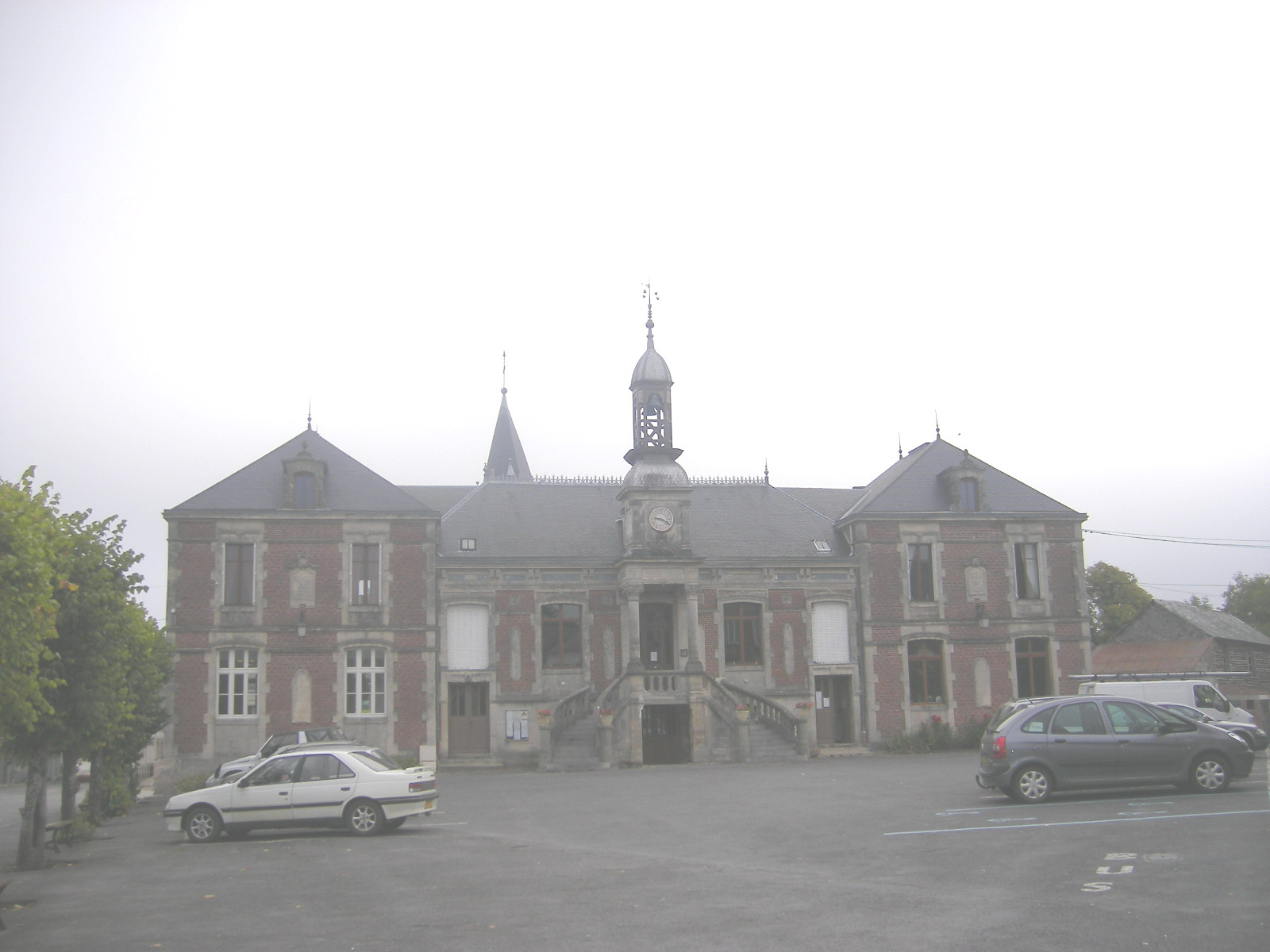 Liart Town hall